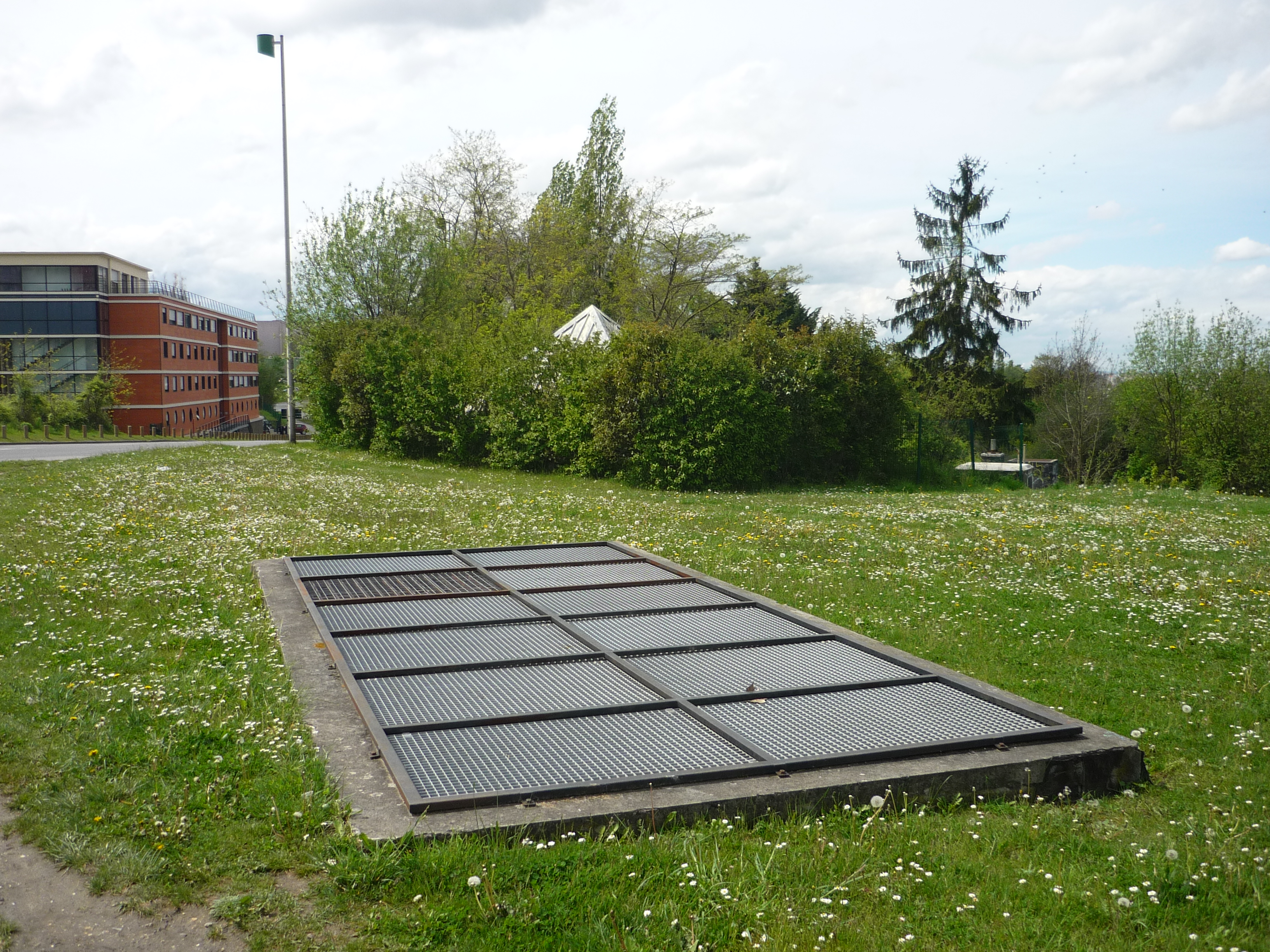 Remnants of SK Noisy-le-Grand with an air vent in the foreground ans the terminus station in the background, France